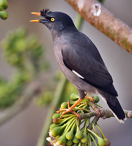 Jungle Myna Acridotheres fuscus in Kolkata, West Bengal, India.